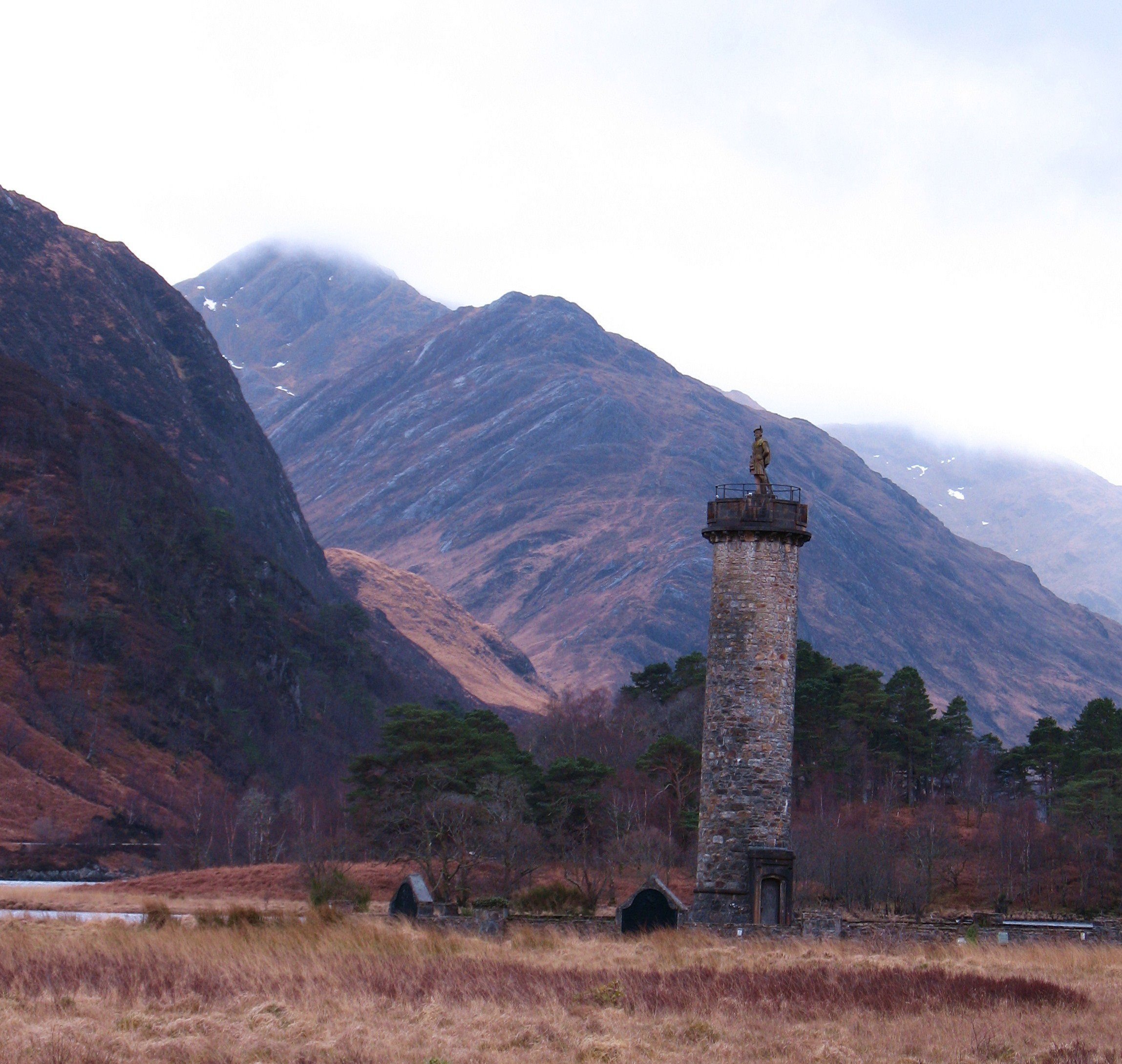 Glenfinnan Monument The famous landmark on the 'road to the isles'.